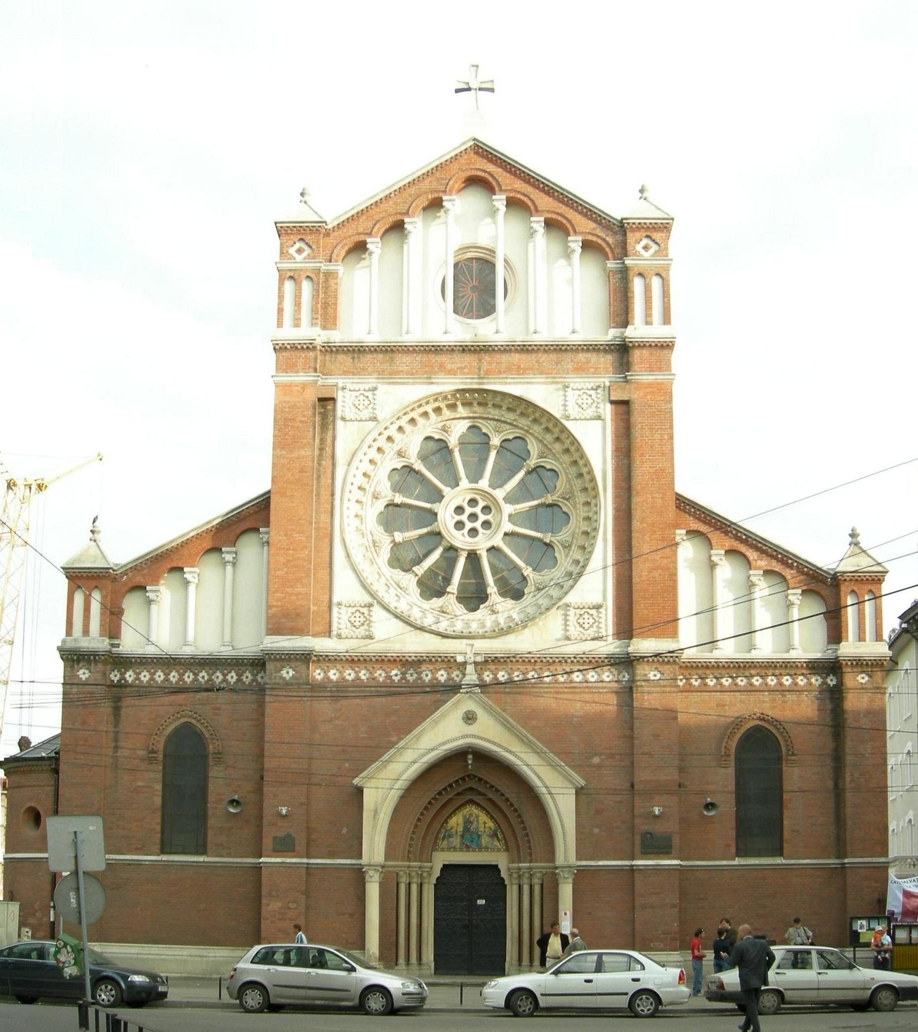 St. Joseph Cathedral (Roman Catholic), Bucharest, Romania